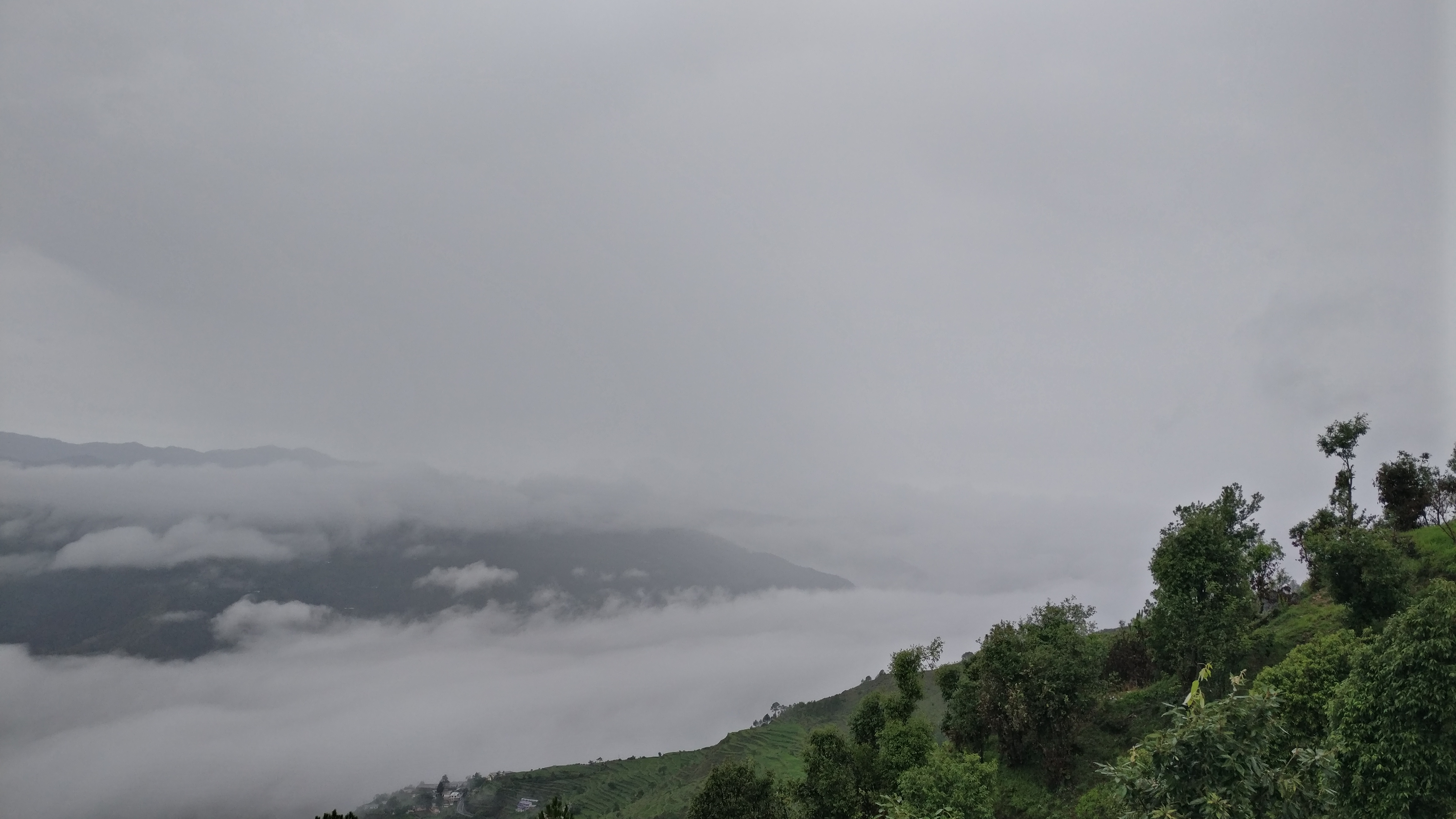 Clouds Beneath